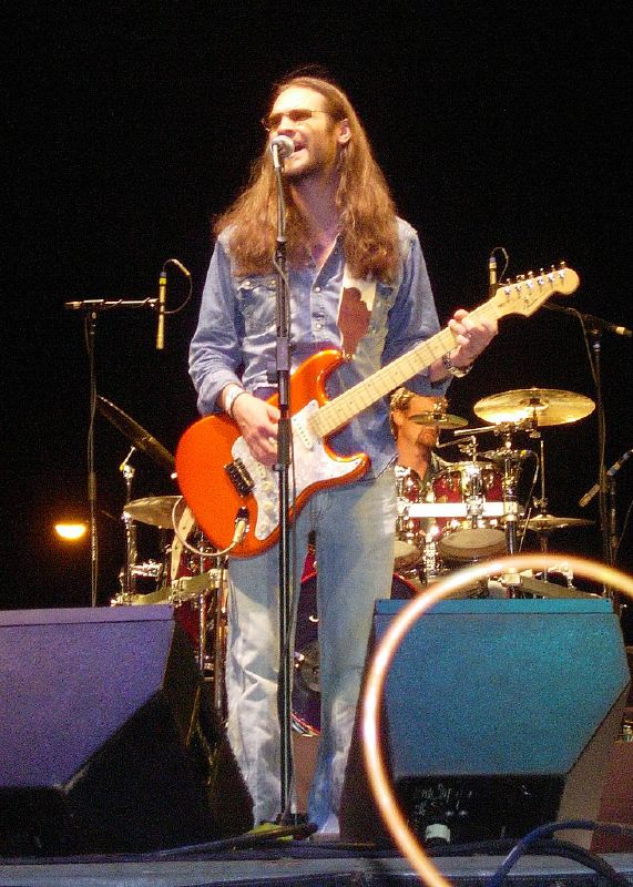 Bo Bice playing guitar